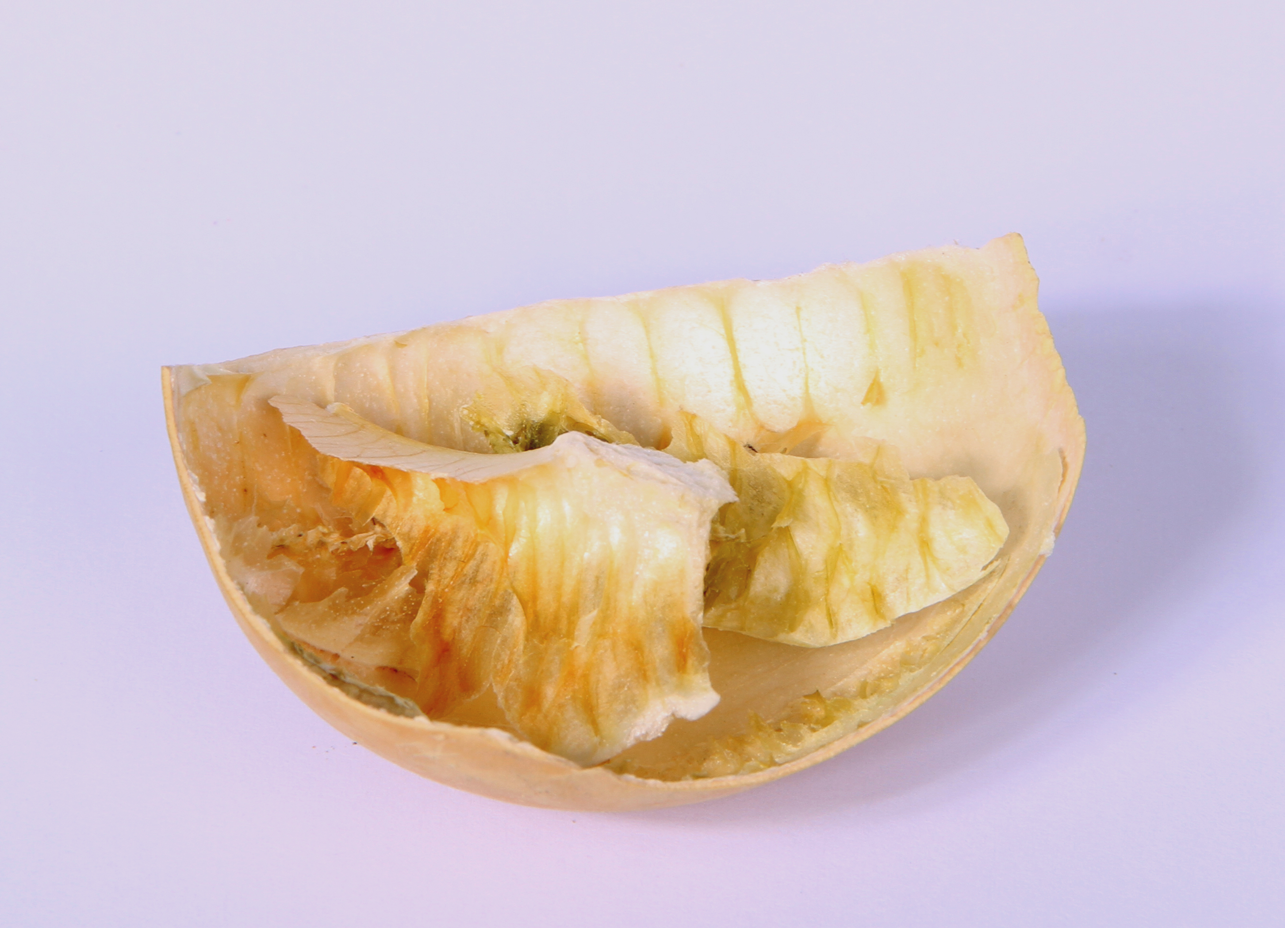 Tallow of Citrullus